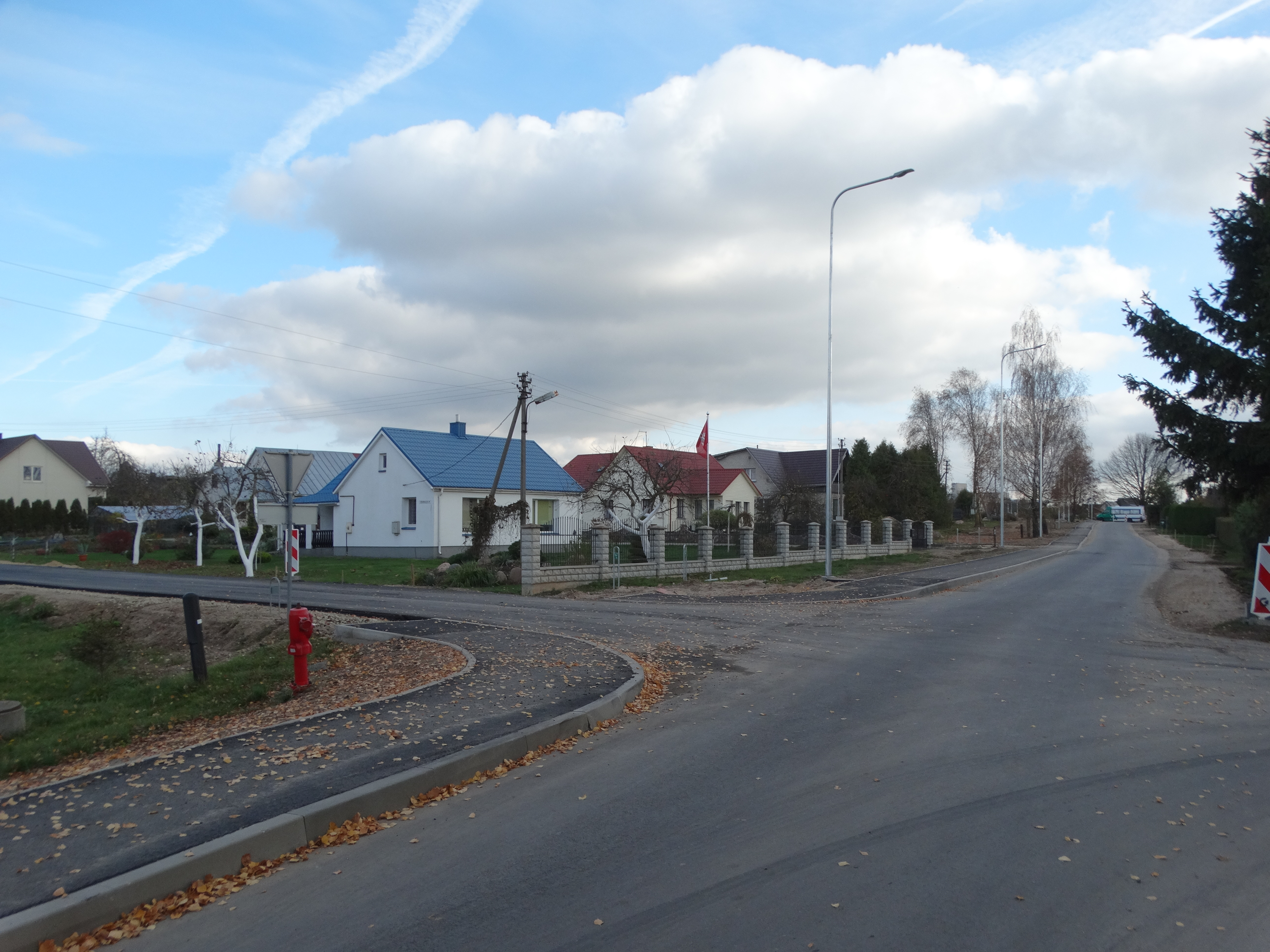 Miklusėnai, Alytus district, Lithuania